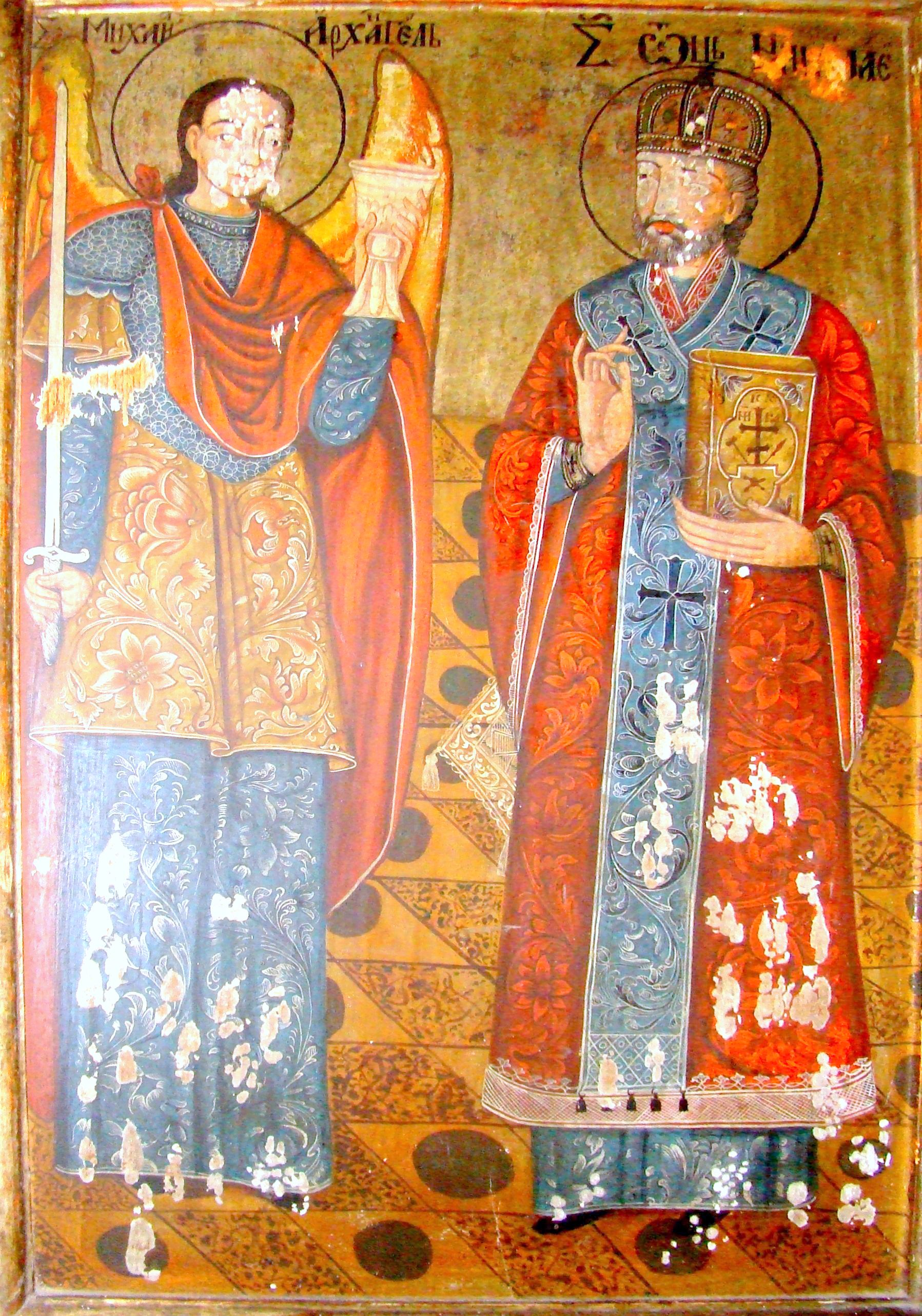 Wooden church in Aghireșu, Cluj county, Romania